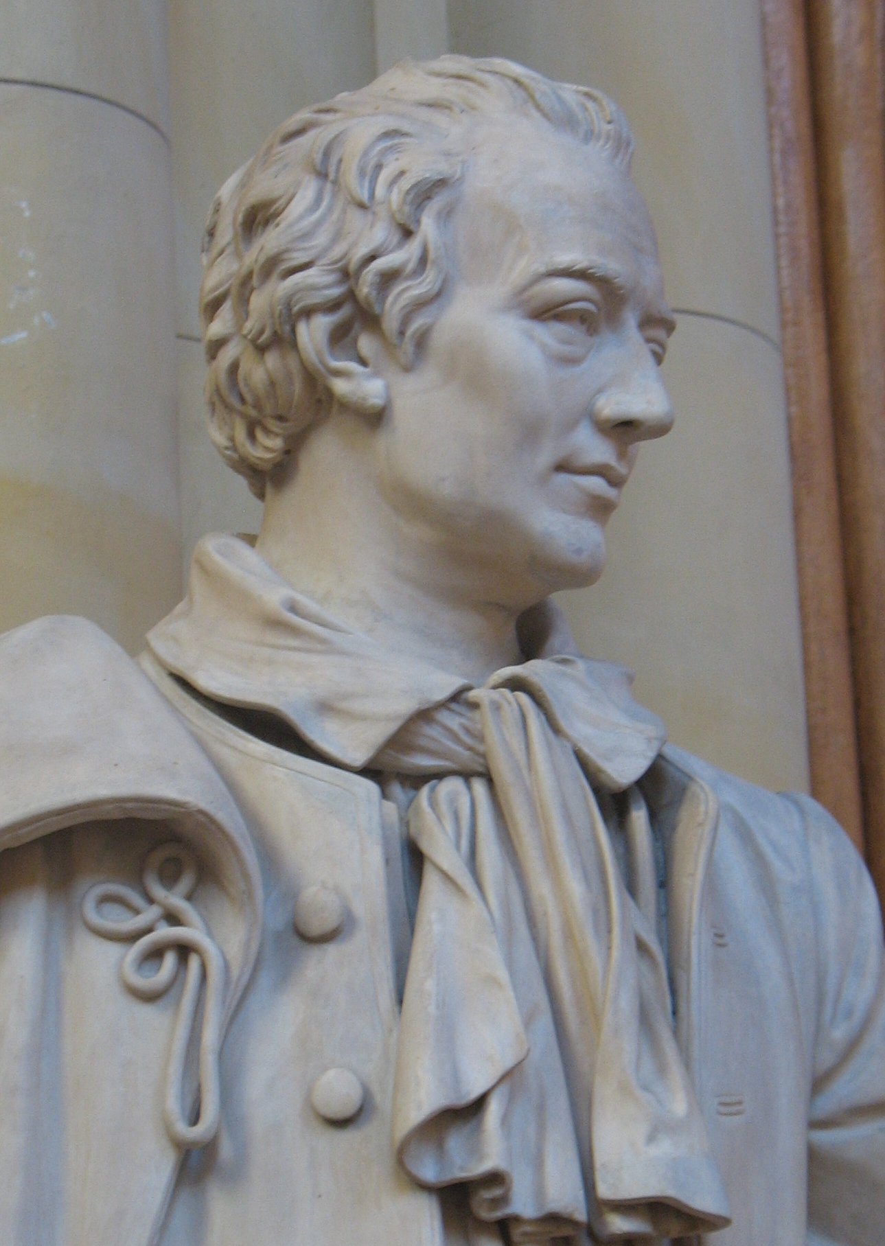 A sculpture of Johann Joachim Winckelmann from Ludwig Wilhelm Wichmann in marmor, started in 1844 and finished in 1848. Friedrichswerder Church. Berlin, Germany.